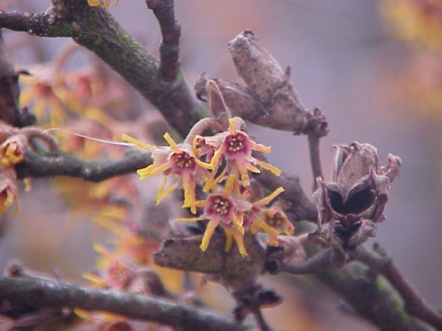 Species: Hamamelis vernalis Family: Hamamelidaceae Image No. 2